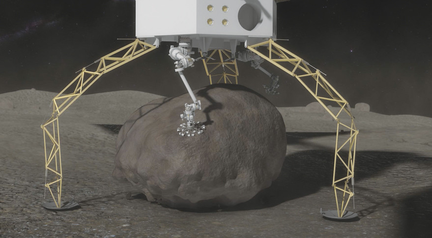 Asteroid Capture Microspine grippers on the end of the robotics arms are used to grasp and secure the boulder. The microspines use thousands of small spines to dig into the boulder and create a strong grip. An integrated drill will be used to provide final anchoring of the boulder to the capture mechanism. Credit: NASA artist’s concept.